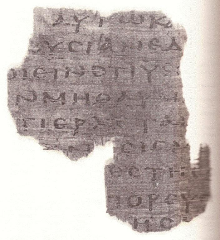 P 95 recto with text John 5:26-29